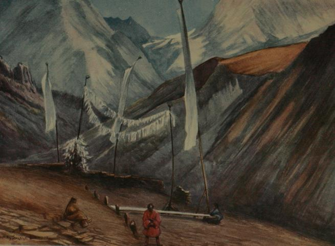 1905 illustration of Tibetan prayer flags.